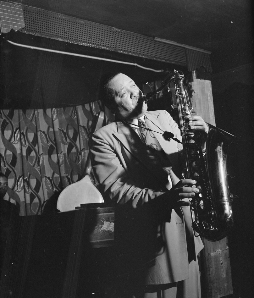 Portrait of Lester Young, Famous Door, New York, N.Y. (Photo is reversed left-to-right. Left hand should be on the top of the saxophone.)